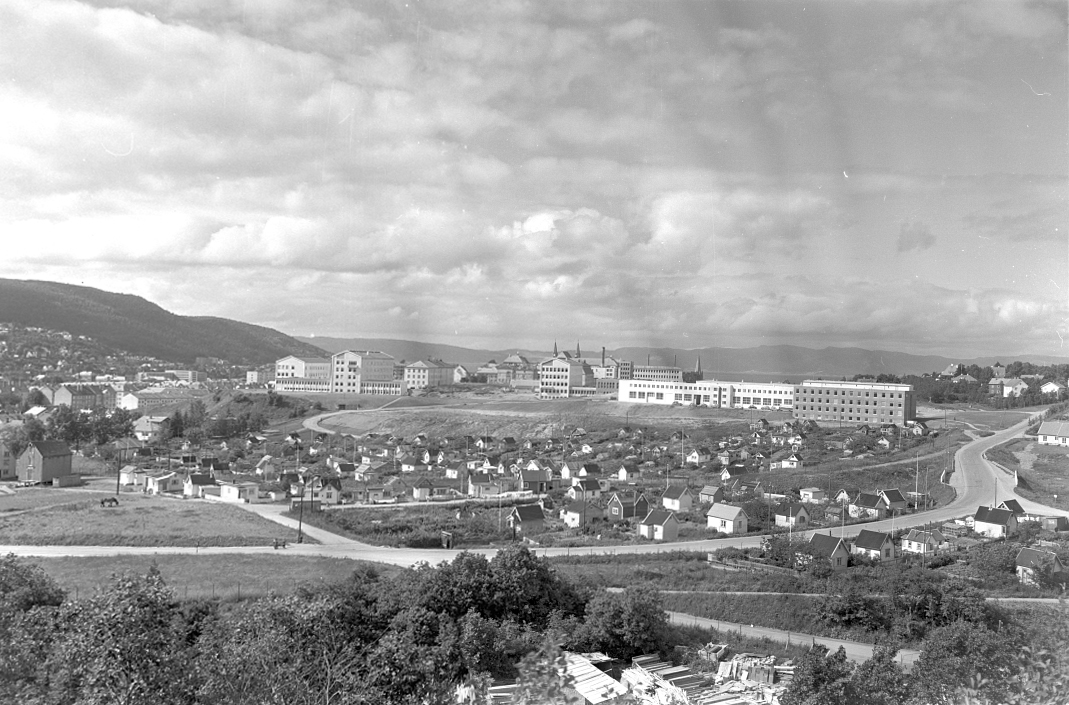 Survey of Lerkendal hagekoloni (the name of an allotment association) in Trondheim, Norway. The allotments existed from 1918 to 1959, when the area was expropriated to be used for an expansion of NTH (The Norwegian Institute of Technology), later NTNU (Norwegian University of Science and Technology)